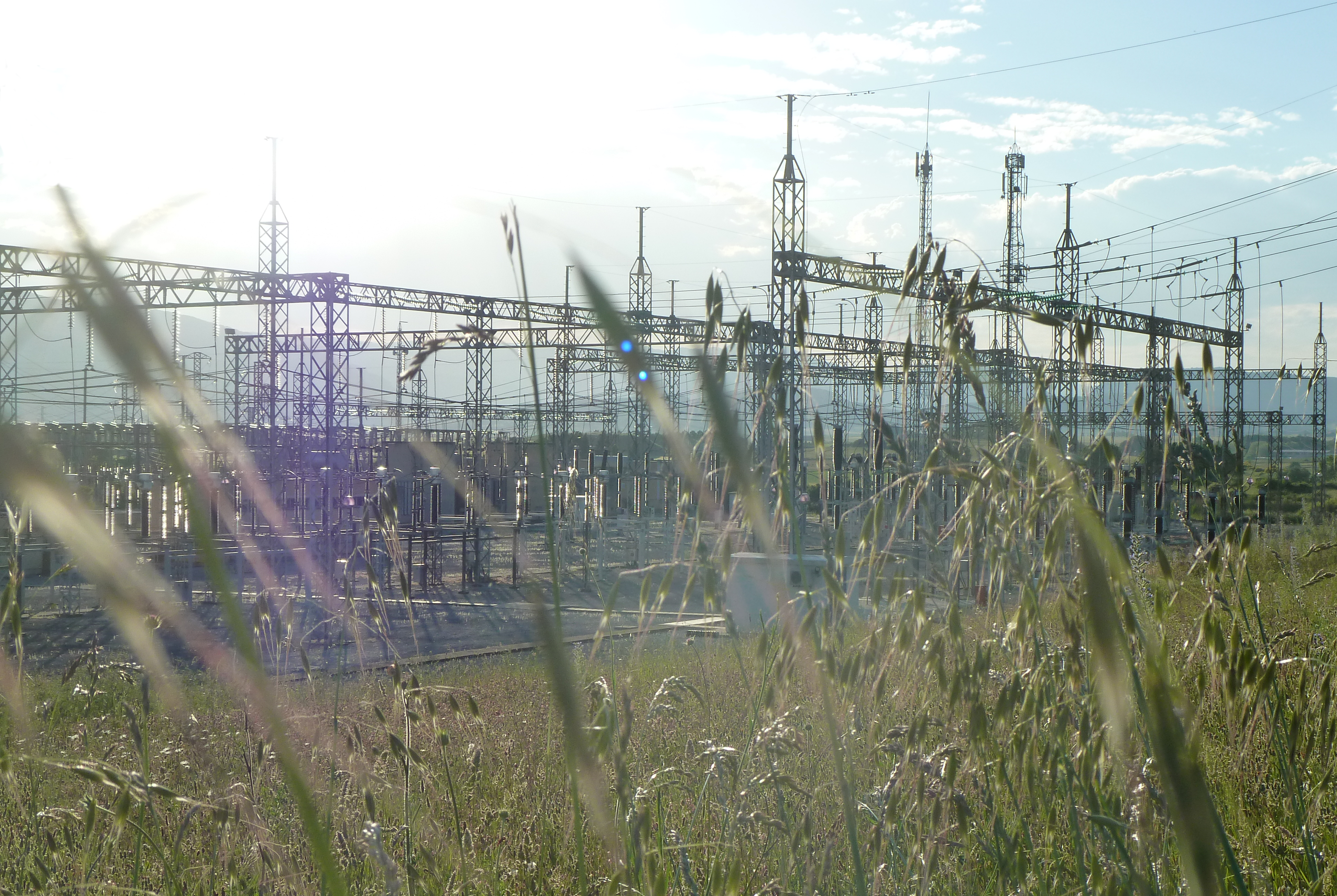 Electrical substation owned by Red Eléctrica Española in Orkoien